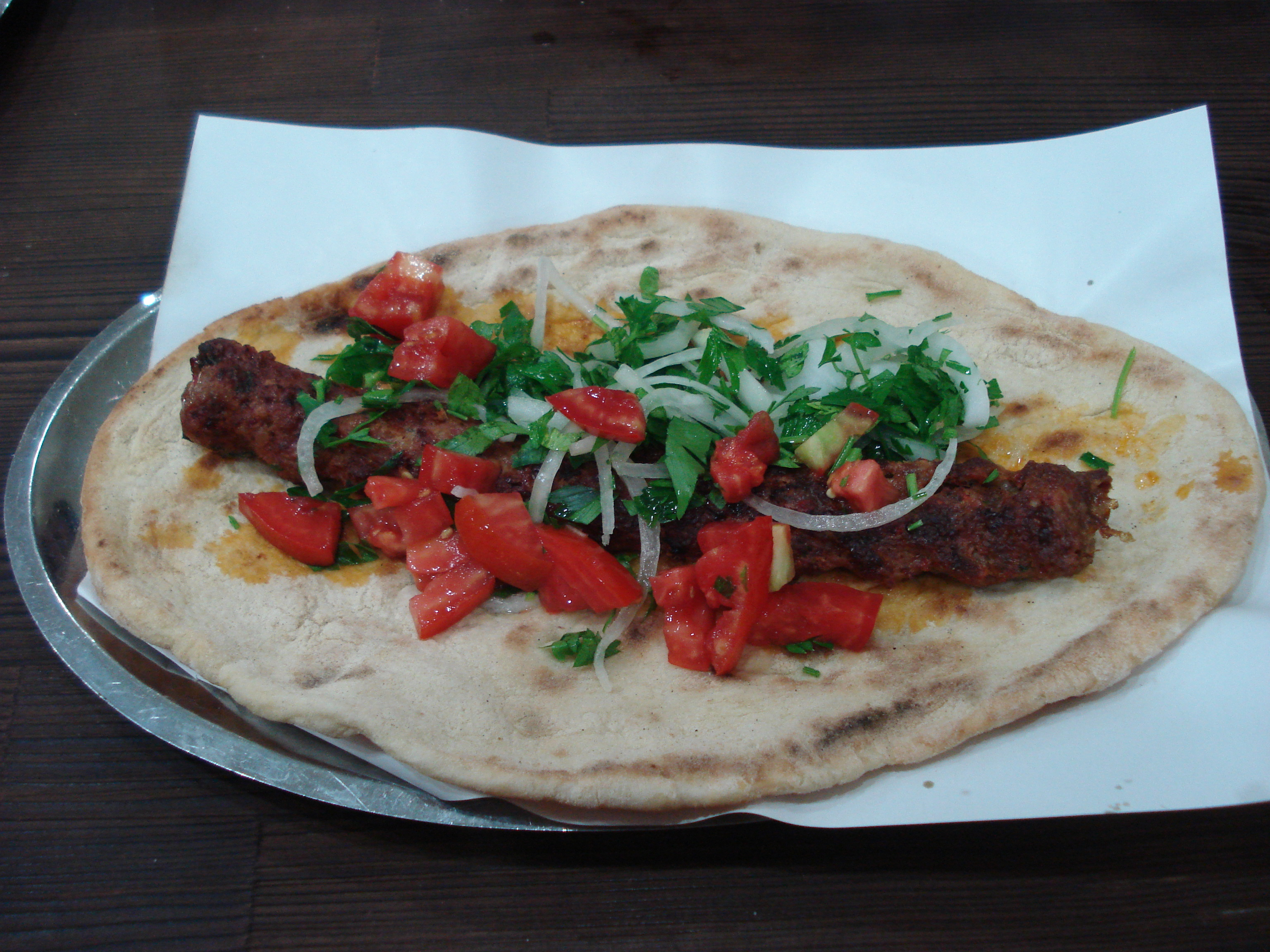 Adana kebap, a meat dish from the cuisine of Adana in Turkey